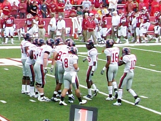 Action from the 2010 Arkansas Razorbacks vs Ole Miss Rebels football game at Donald W. Reynolds Razorback Stadium in Fayetteville, Arkansas